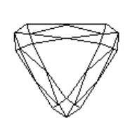 Self made picture of a trilliant cut.